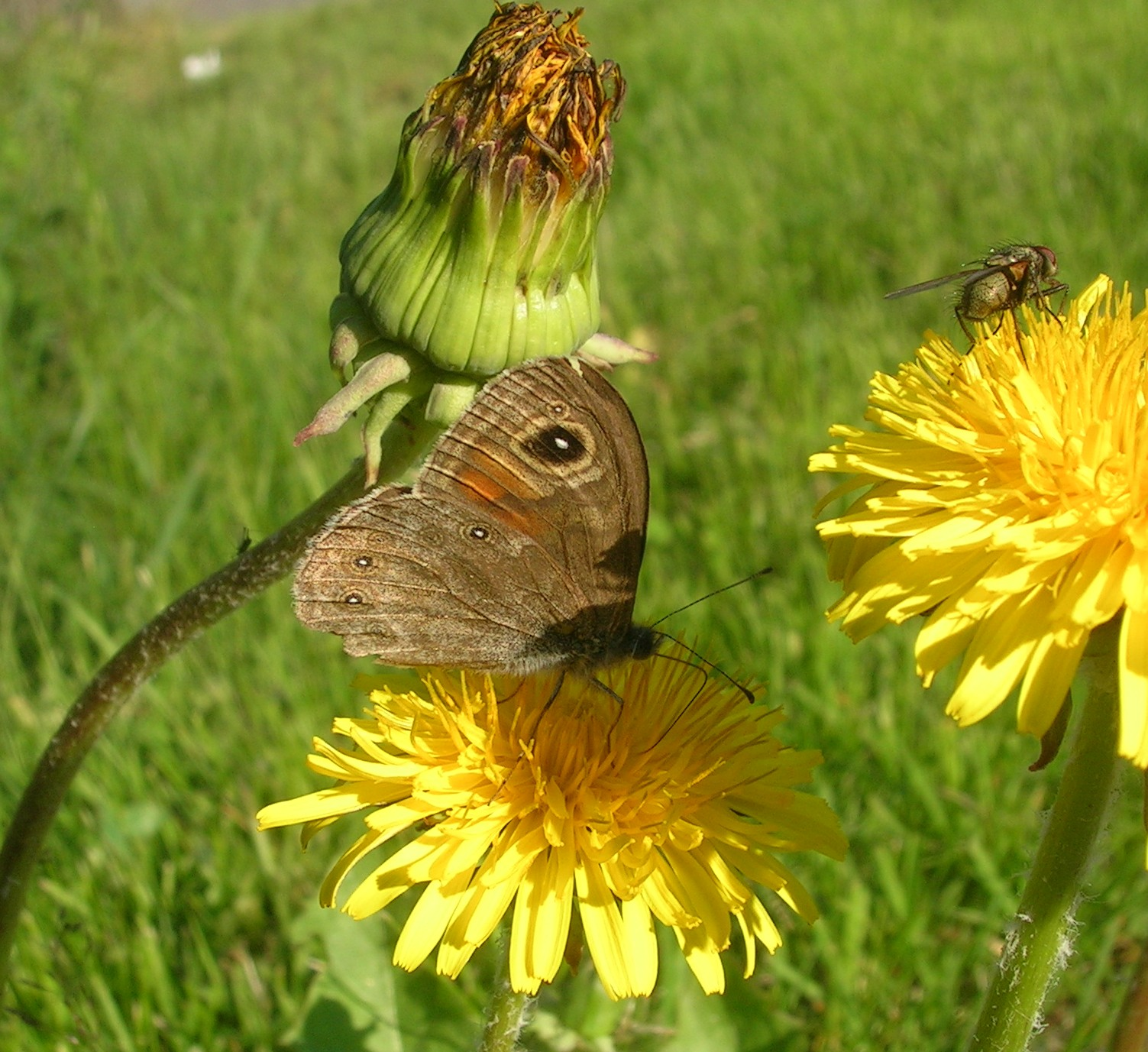 Pararge maera (=Lasiommata maera), Satyrinae, from near Frognerseteren in Oslo, Norway